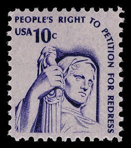 This is an image of a stamp issued in November 1977. It is in the public domain.